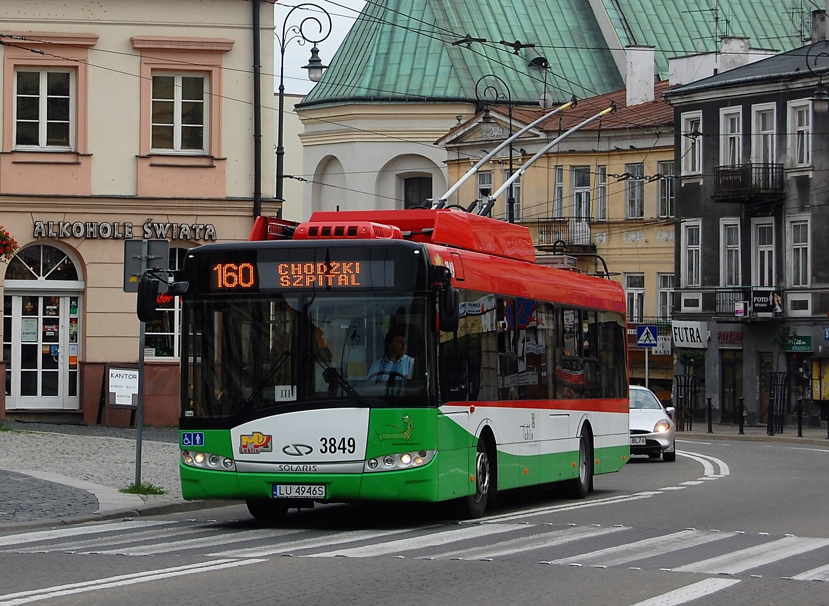 Solaris Trollino 12S trolleybus (#3849), Plac Łokietka, Lublin, Poland. Built 2011, MPK Lublin operator.